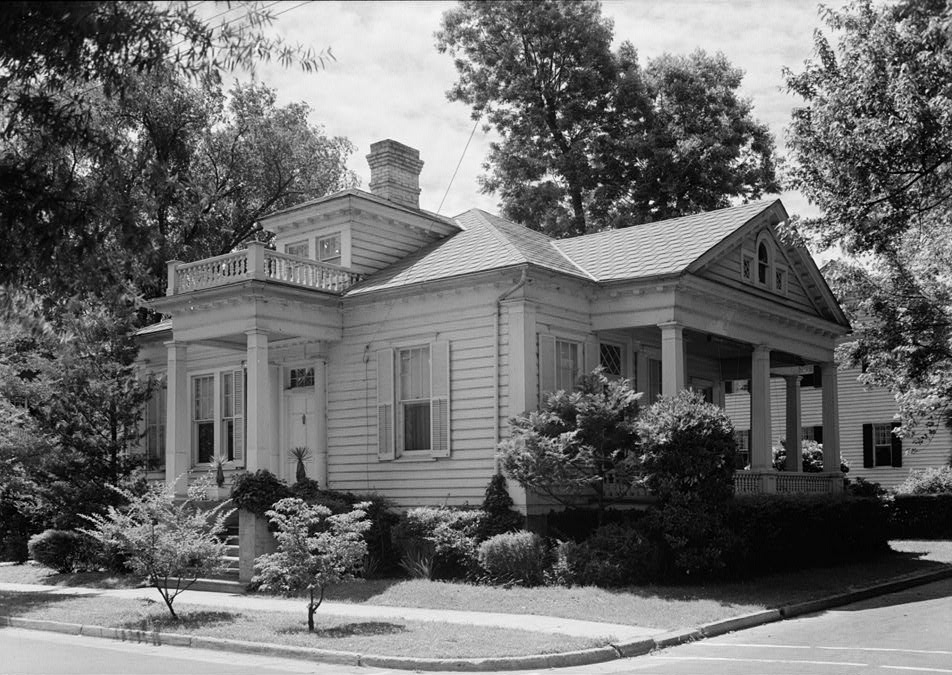 View of northwest elevation of the Old Custom House, 403 Court Street, Edenton, Chowan County, North Carolina. Historic American Buildings Survey, The Library of Congress, Washington, D. C.